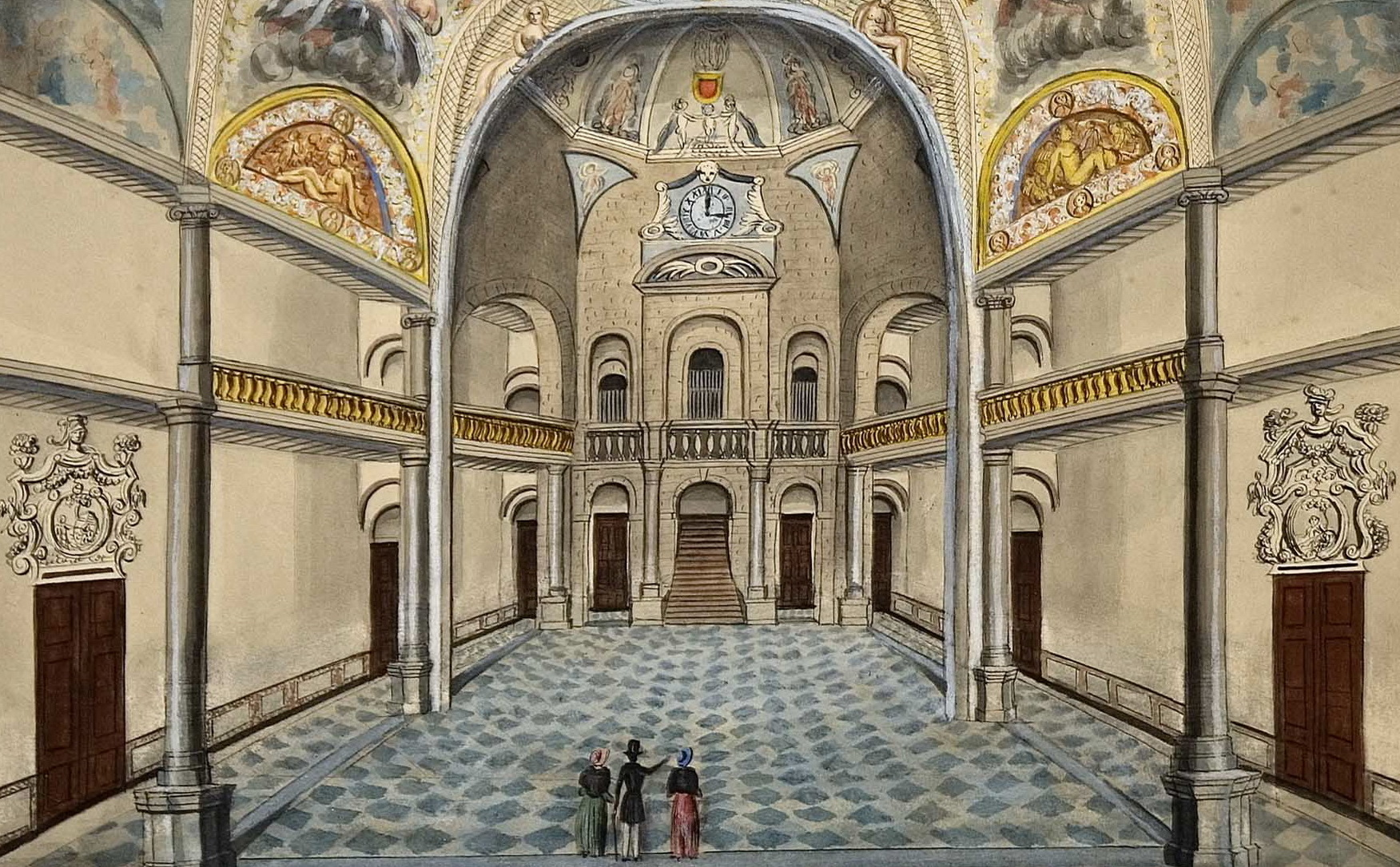 Main hall ('Plein') in the town hall of Maastricht, the Netherlands. Drawing by Philippe van Gulpen, 1853.